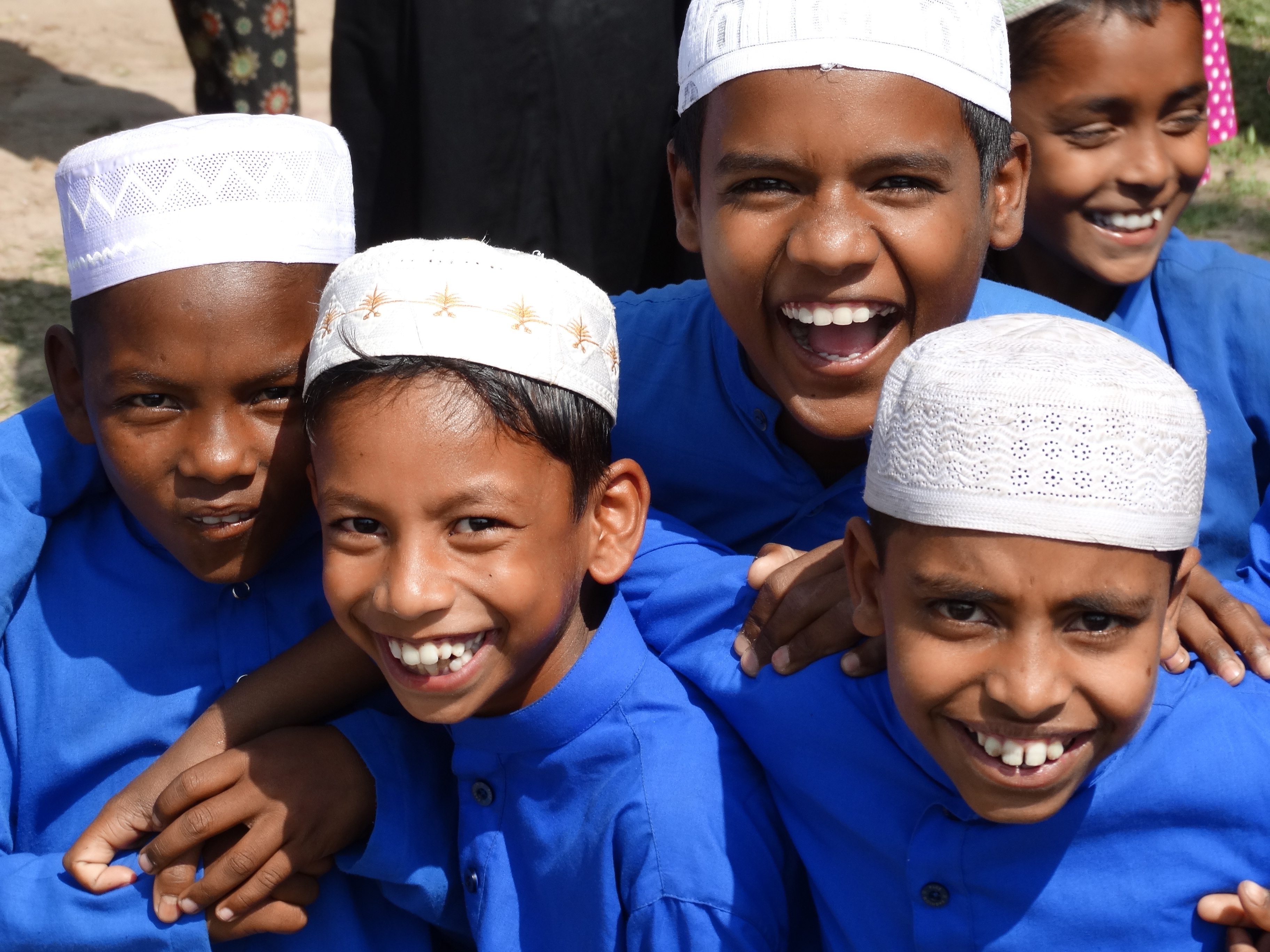 Boys at Primary School - Srimangal - Sylhet Division - Bangladesh